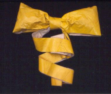 Yellow Ribbon, US lib of congress picture from Caption: The yellow ribbon that Penne Laingen tied around her oak tree in 1979, when her husband, Bruce Laingen, was among those taken hostage in Iran. The Laingens donated the ribbon to the Library in 1991. American Folklife Center Collection.